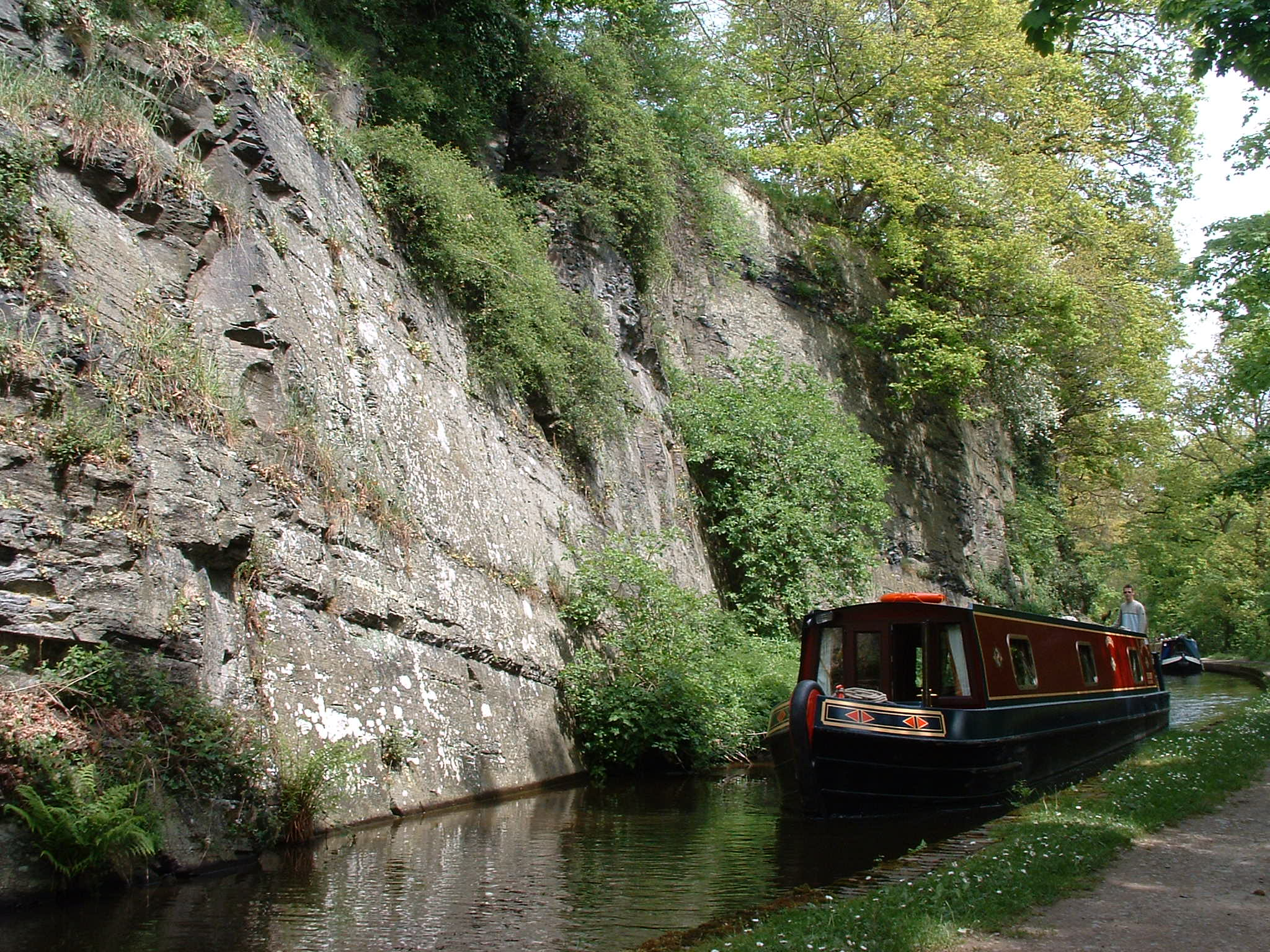 The final narrows just before Llangollen Photo by Akke Monasso